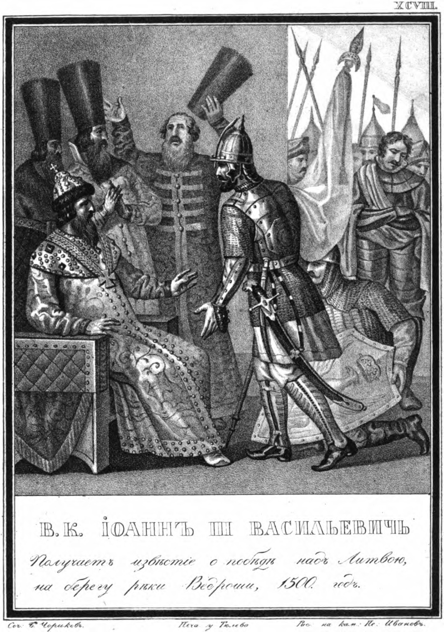 Illustration plate from the book Живописный Карамзин (1836), depicting the history of Russia.